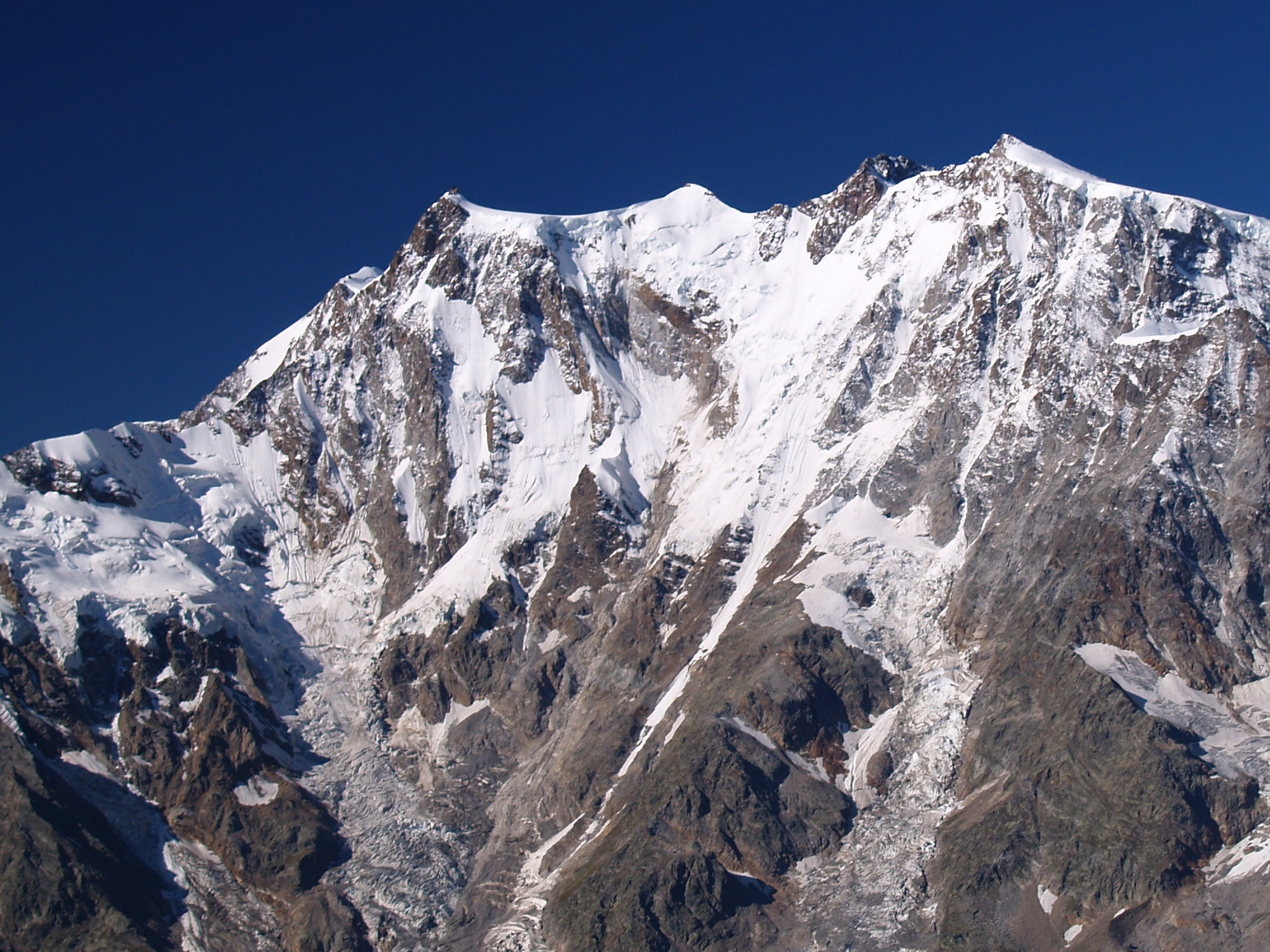 Monte Rosa east side from Monte Moro Pass